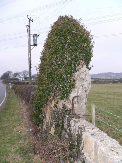 Maen Addwyn Standing Stone, near Capel Coch, Anglesey. A view of the ivy covered "Maen Addwyn" Standing Stone. Once freestanding in the field, now supported by a stone wall due to a road widening scheme about 20 years ago.